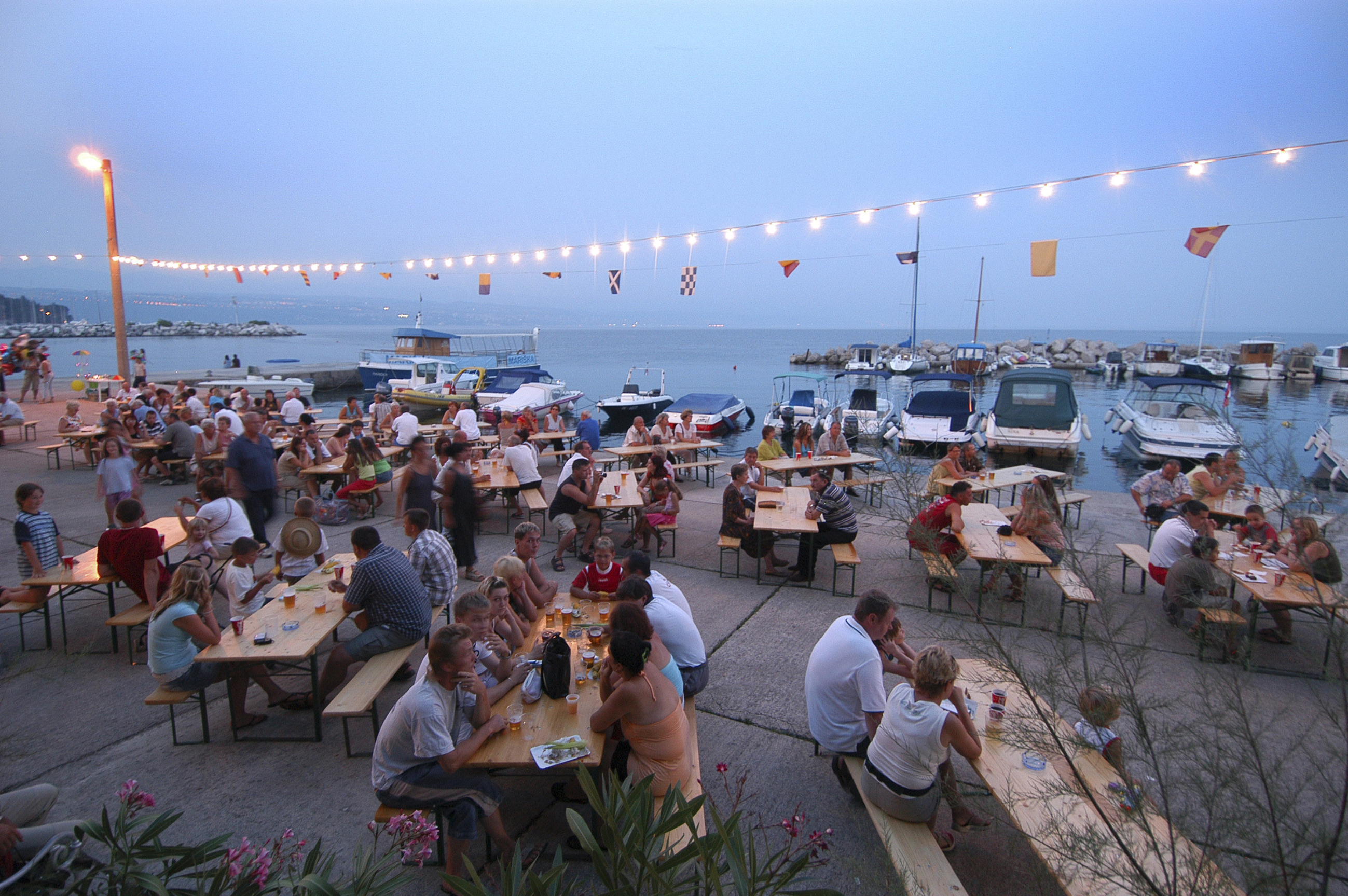 During the summer in Icici are organized many different way of entertainment